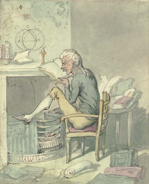 "The Pedant" Thomas Rowlandson (1756-1827) Pencil, ink and watercolor 6 x 4 7/8 in. (15.2 x 12.5 cm.)